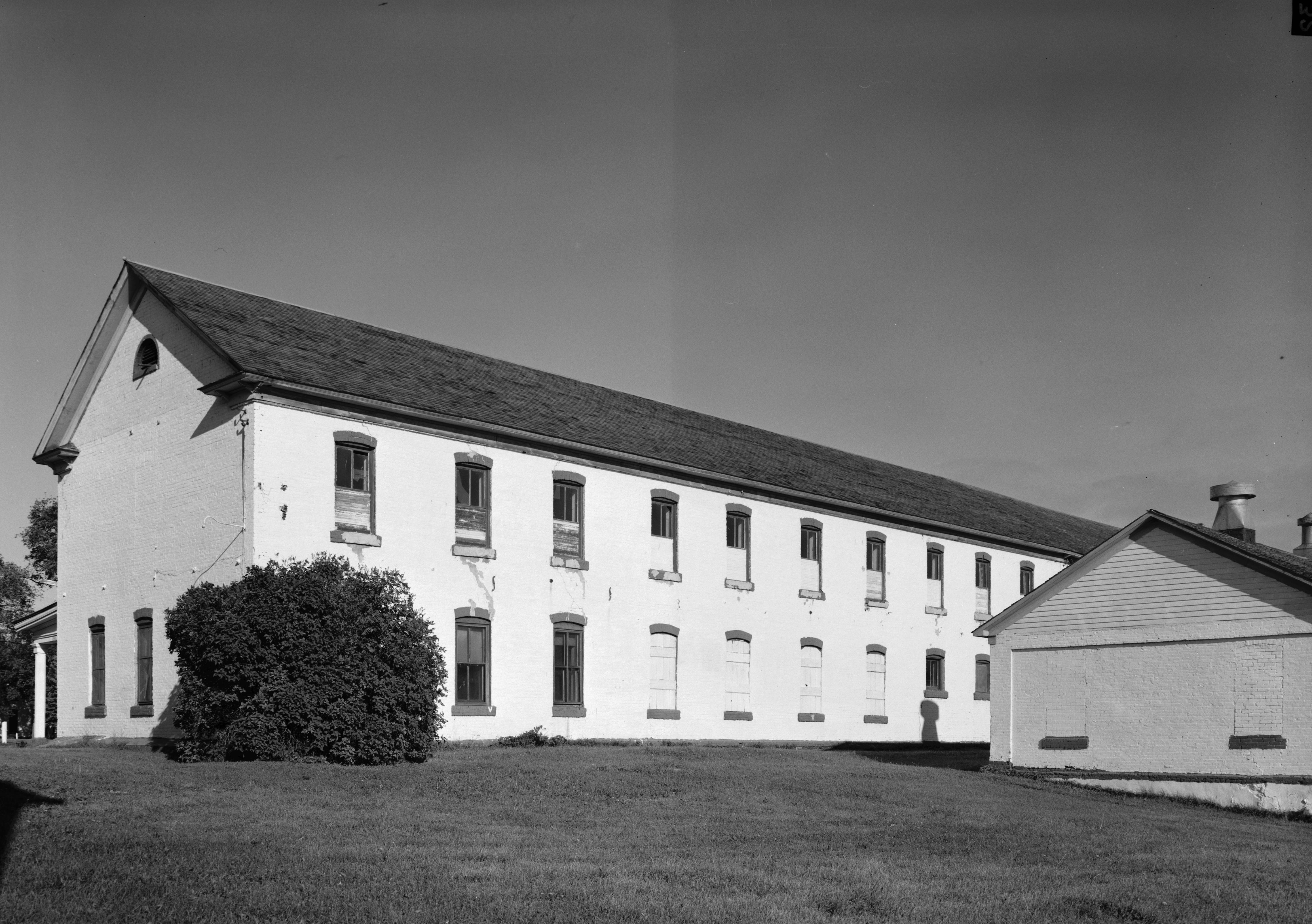 Barracks at Fort Totten, a historic United States Army fort located south of Fort Totten along North Dakota Highway 57 in Benson County, North Dakota, United States. The fort buildings are listed as a historic district on the National Register of Historic Places.